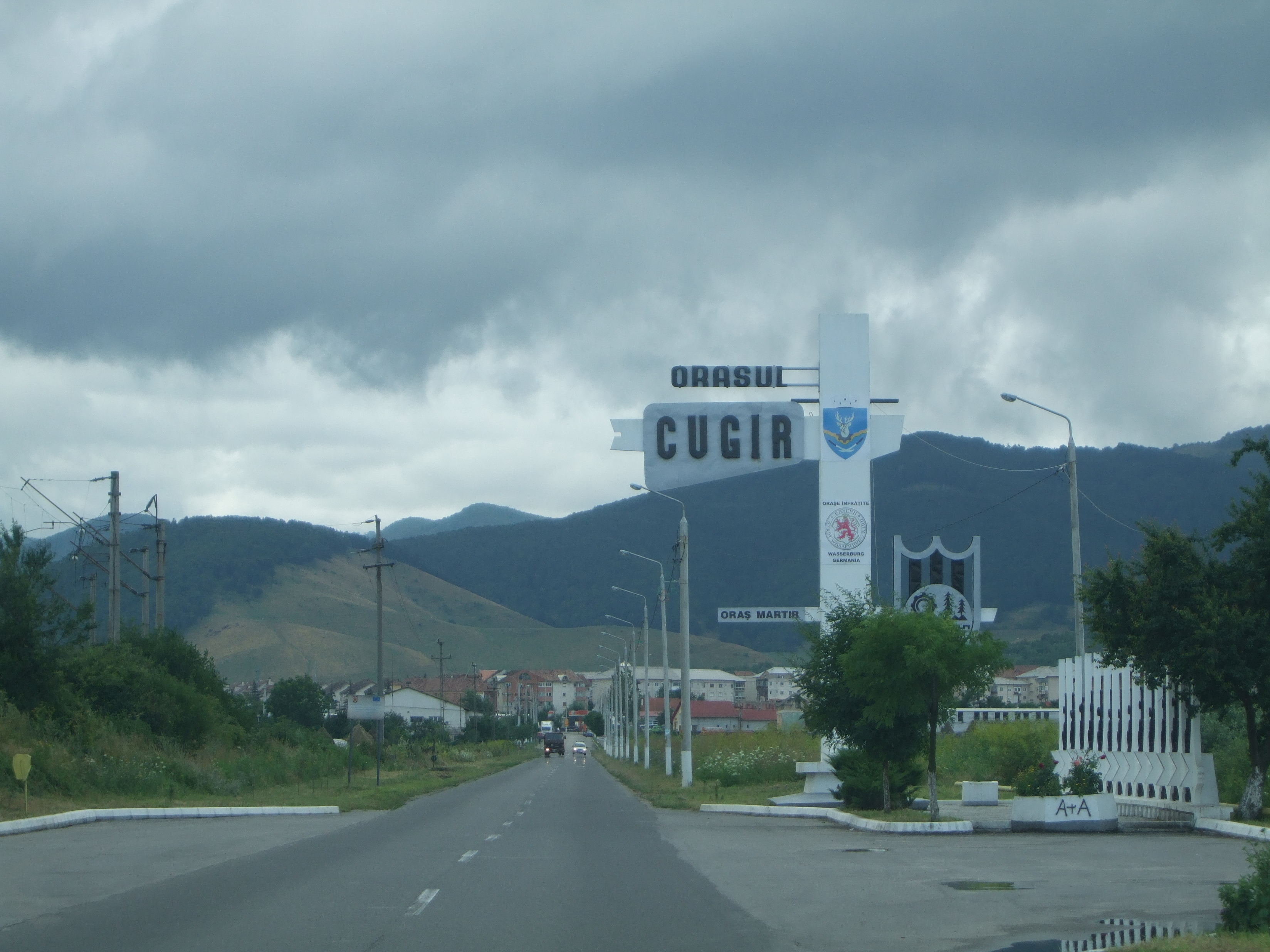 Cugir - ALBA - Romania